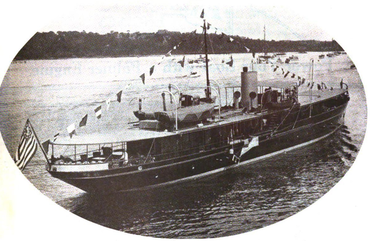 Hussar III